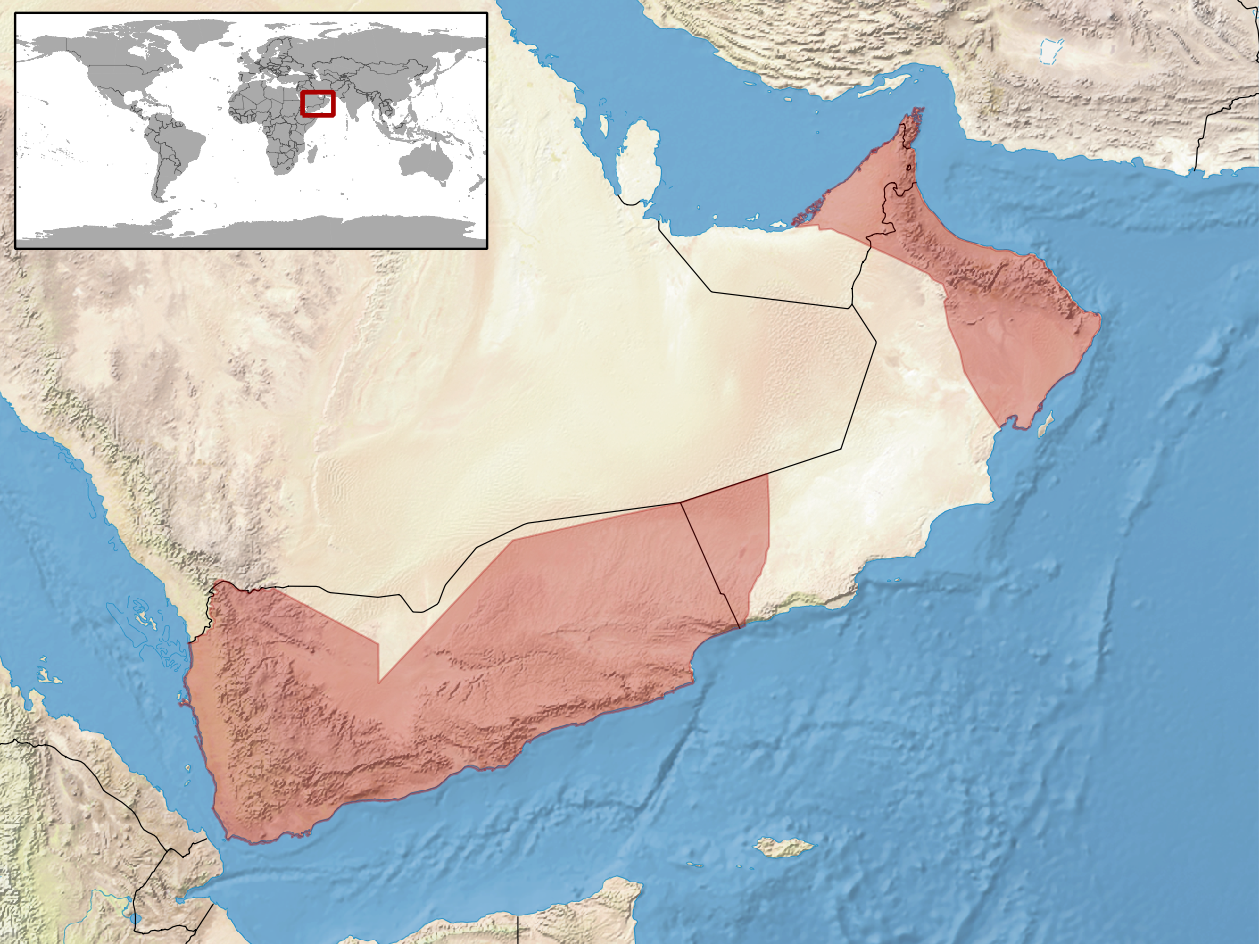 geographic distribution of Bunopus spatalurus (Native: Oman; United Arab Emirates; Yemen)